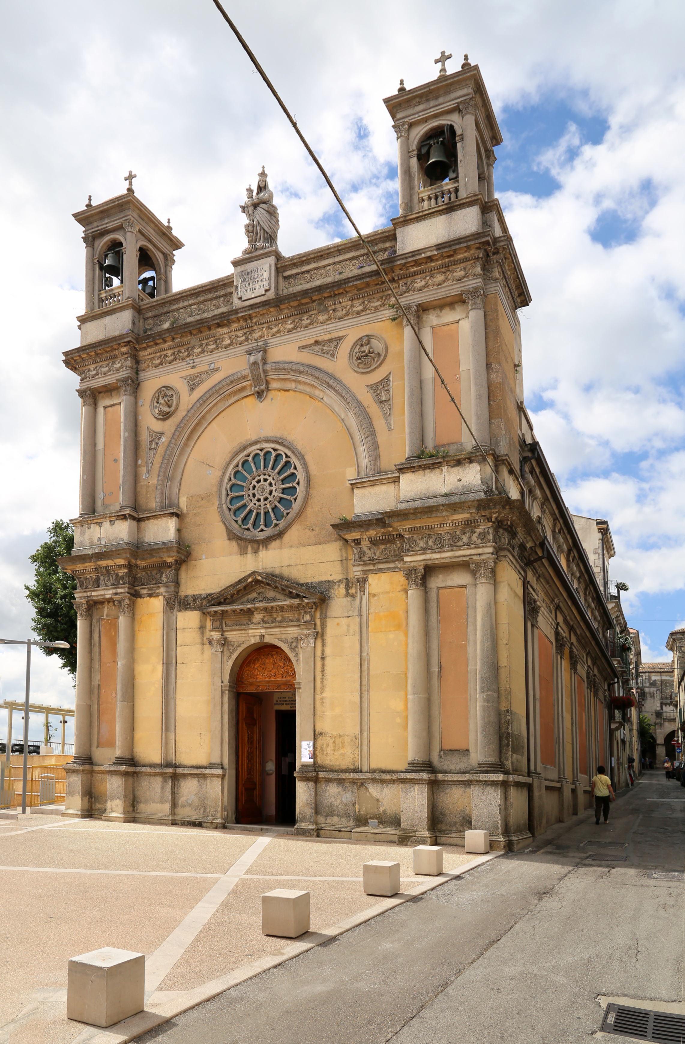 Santa Maria del Carmine (Guardiagrele)